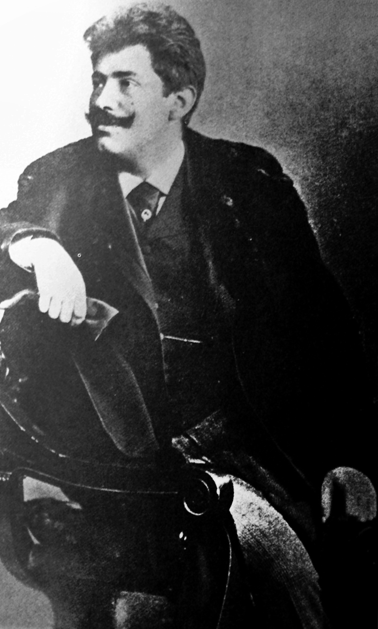 Frederich Kreisler in1899